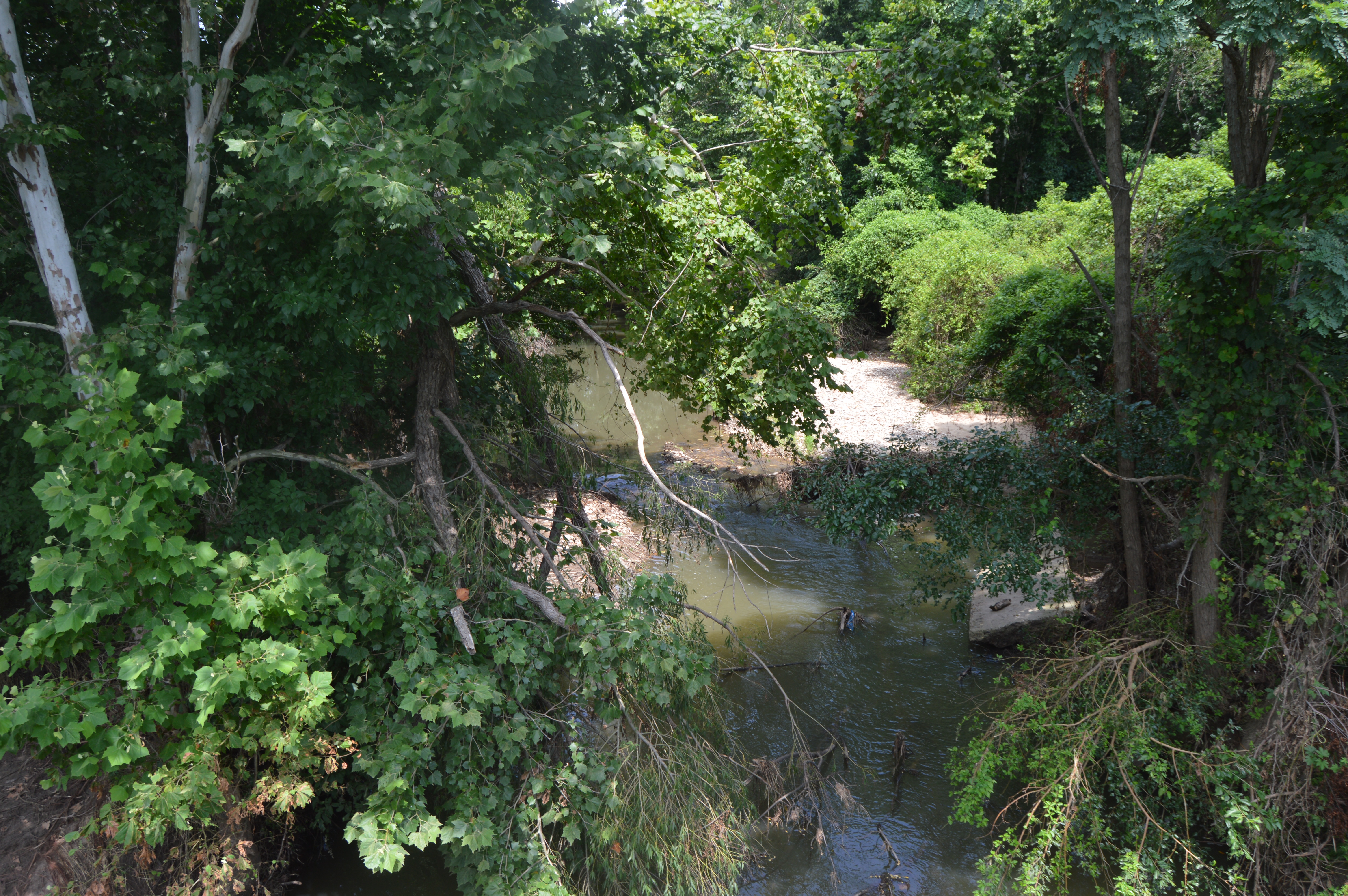 Looking upstream along Fall Creek from Illinois Route 57 southwest of Payson in Fall Creek Township, Adams County, Illinois, United States.